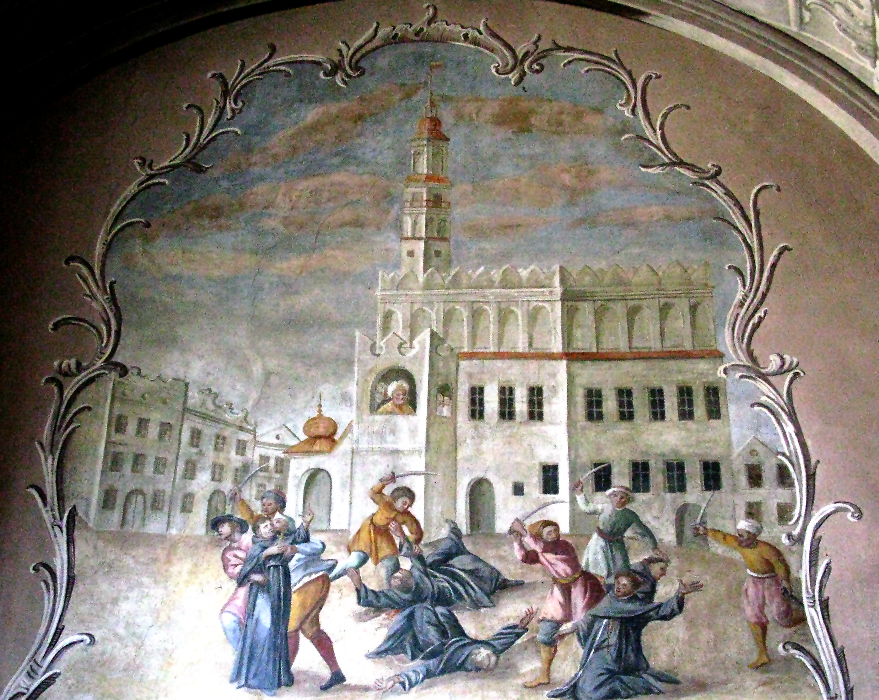 Attack of Stephen III of Moldavia on Przemyśl in 1498